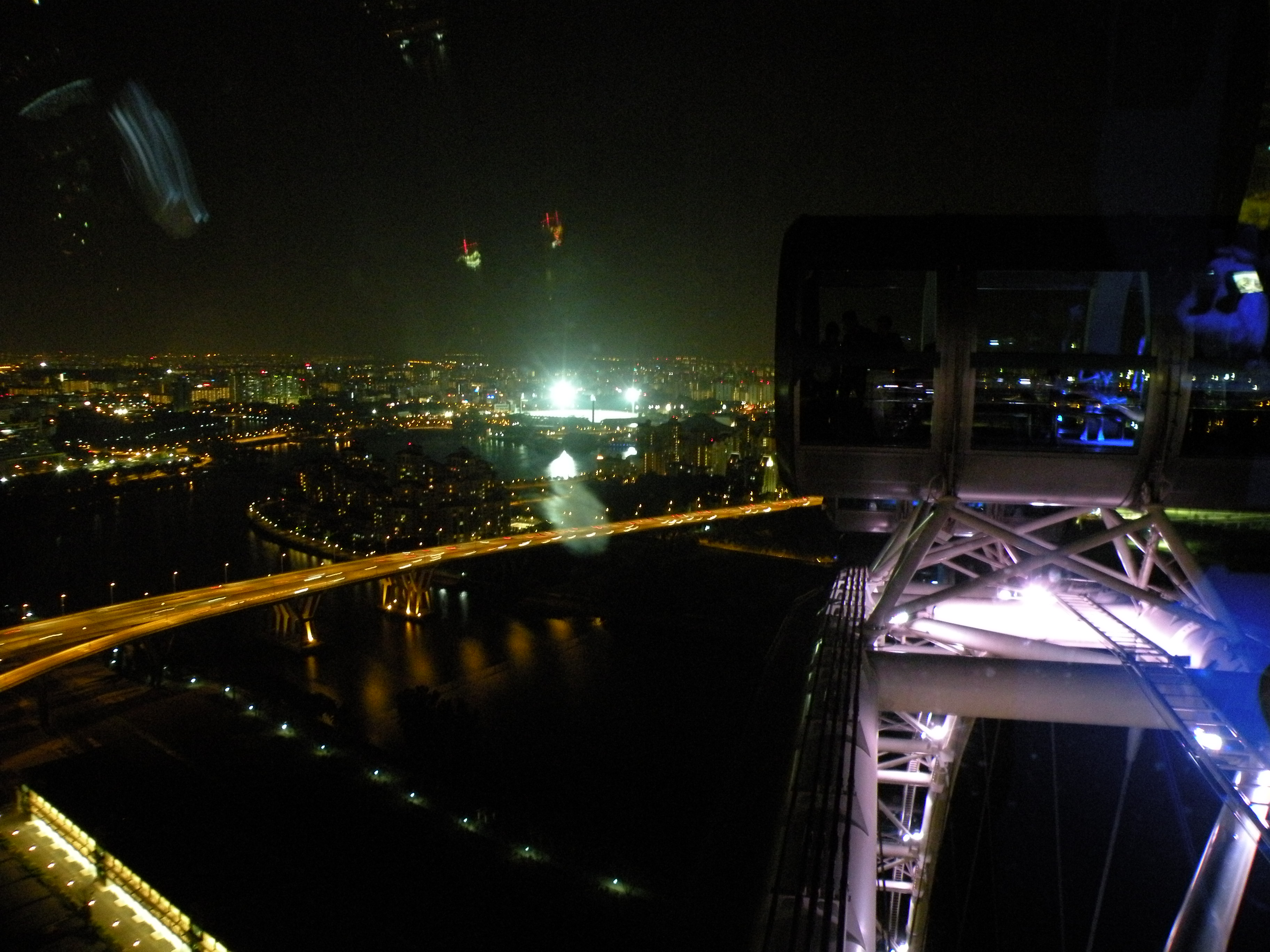 A view of the financial district of singapore, from the newly re-opened singapore flyer ferris wheel. Also in the view, typical flyer capsule.